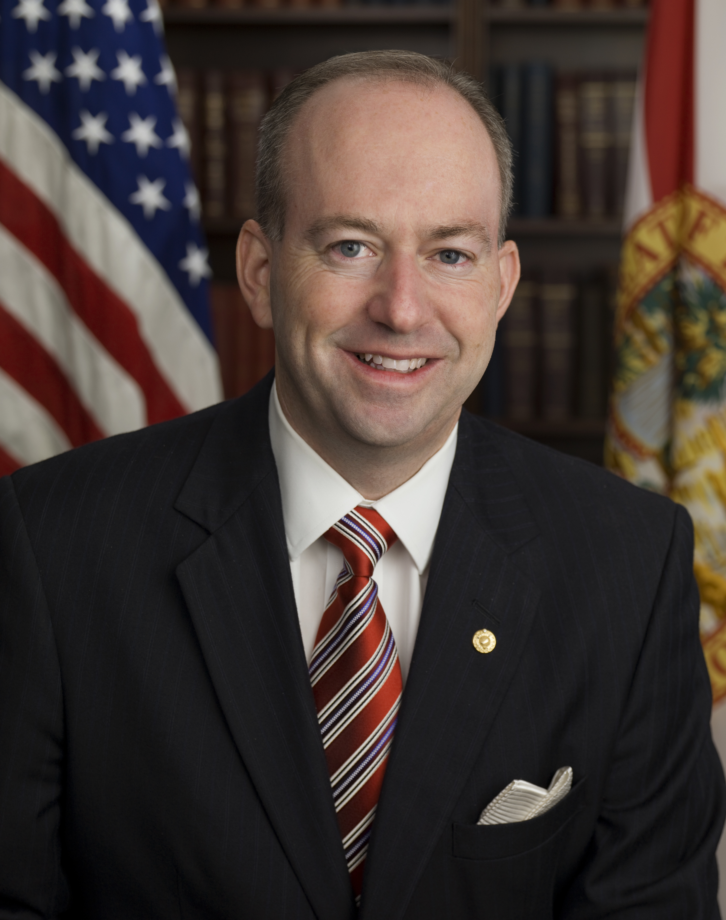 Official photo of Senator George LeMieux (R-FL).